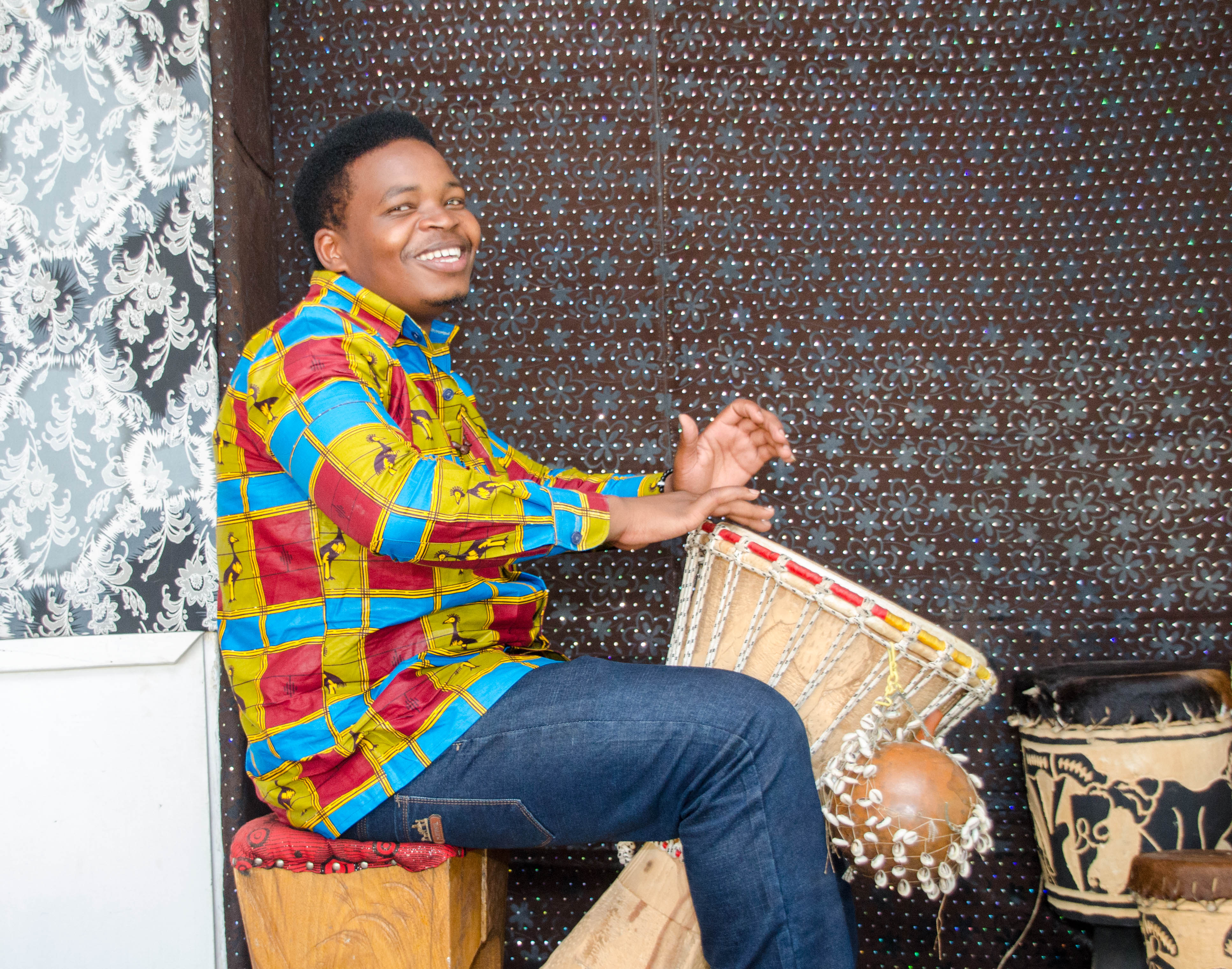 Malawian Percussionist This is an image of music and dance from Malawi